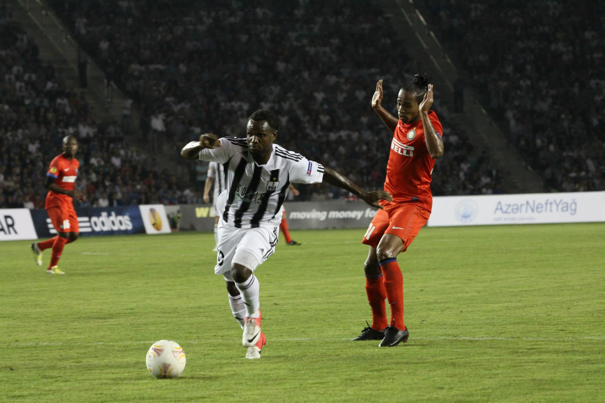 UEFA Europa League 2012-10-04 Neftchi Baku-FC Internazionale Milano.